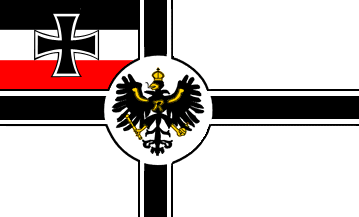 The Kaiserliche Kriegsflagge (the War Ensign of the Kaiserliche Marine, the Imperial Germany Navy, 1871–1892)